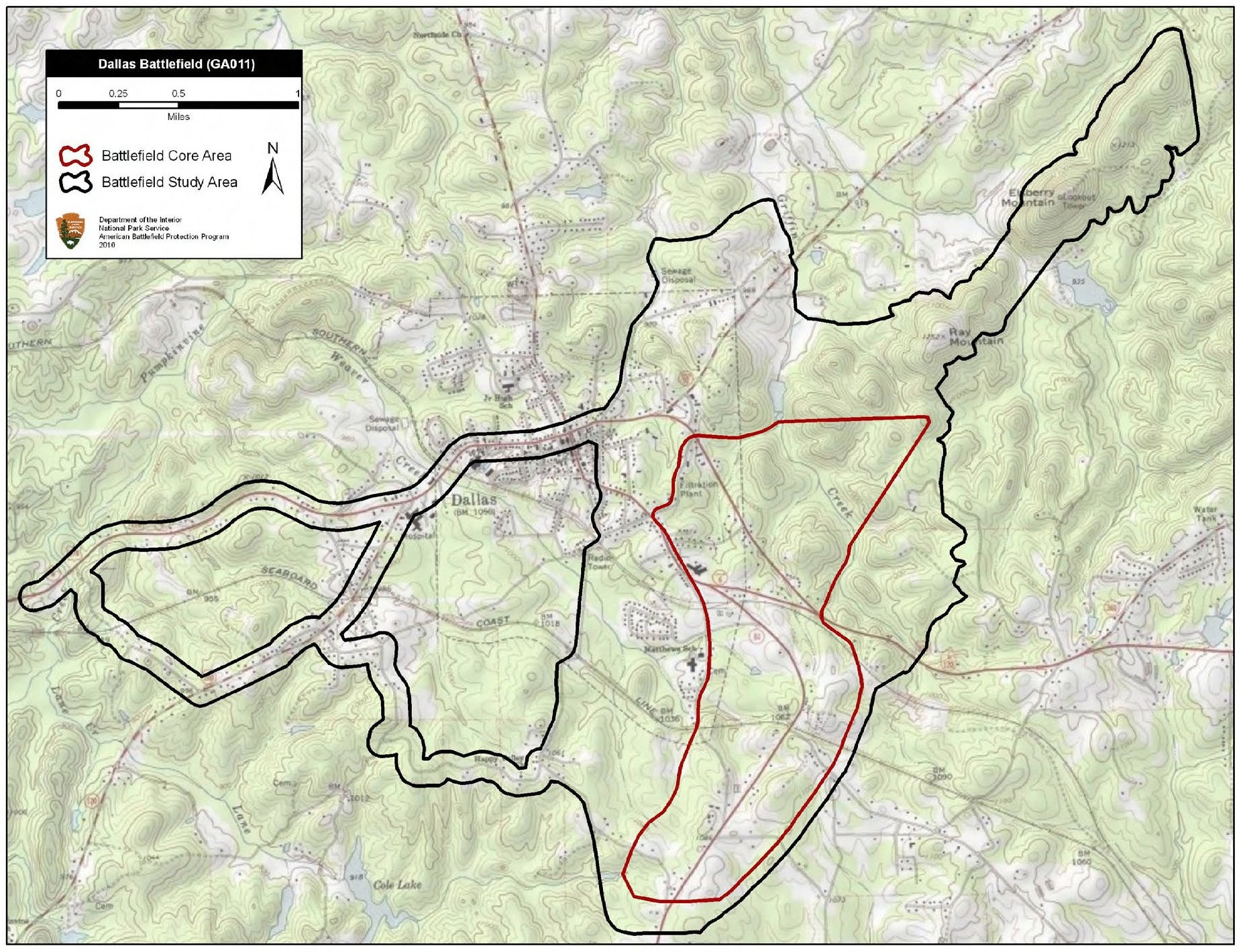 Map of battlefield core and study areas. The ABPP made significant changes to the Study Area. The Federal approach from the west was added to show the advance of the XV Corps onto the battlefield. The locations of the Dallas Line defenses were also added. The Core Area now includes the Confederate artillery positions within the Dallas Line and other areas of fighting to the south.